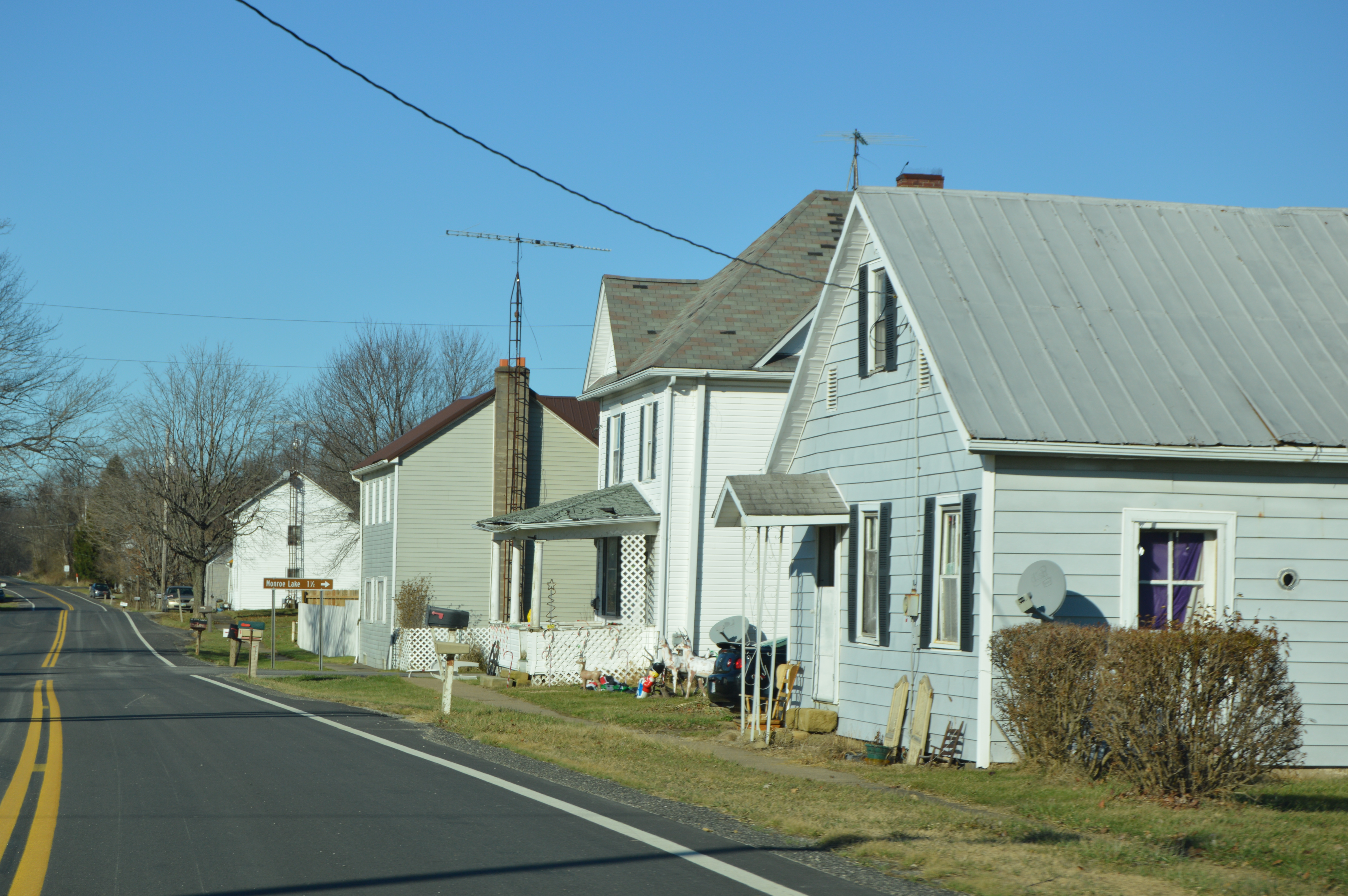 Looking northward on Main Street (State Route 145, essentially the only street) in southern Miltonsburg, Ohio, United States.